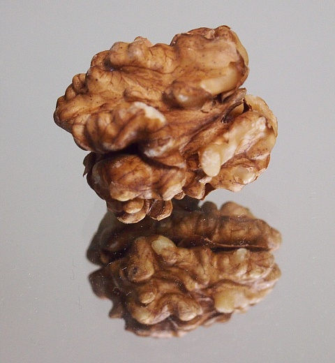 A whole walnut kernel, placed on a mirror, to show both halves of the kernel.